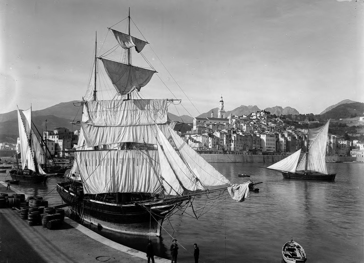 The Menton harbour with its sailboats circa 1900 (Alpes-Maritimes, France).